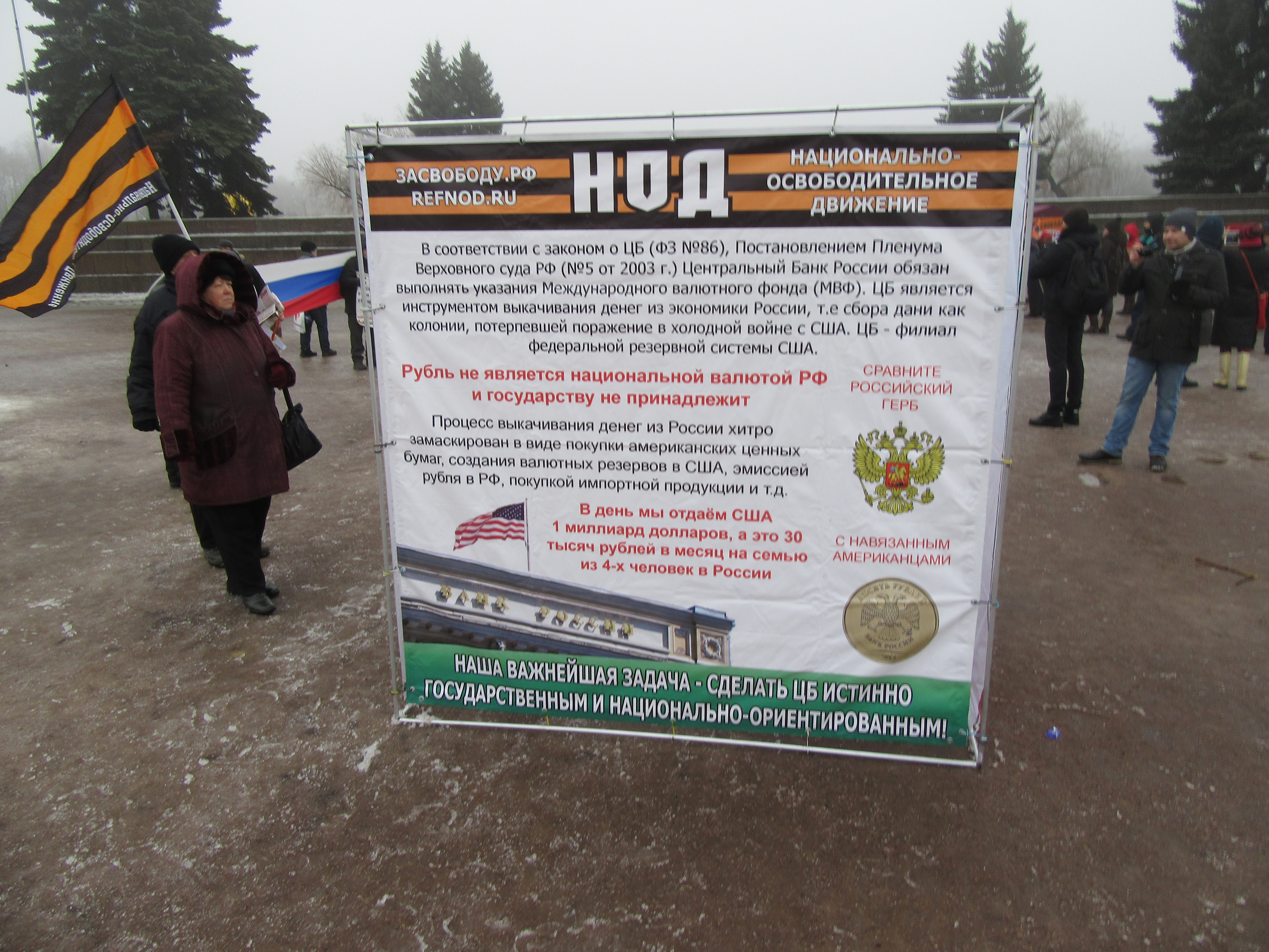 2017-01-28 Rally against cession of St Isaac Cathedral to The Russian Orthodox Church (St. Petersburg, Russia).